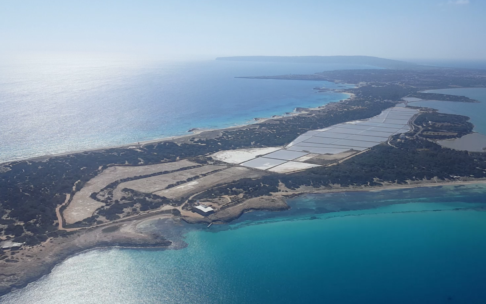 This is a photography of a Site of Community Importance in Spain with the ID: ES0000084. Natura2000 entry, EEA entry